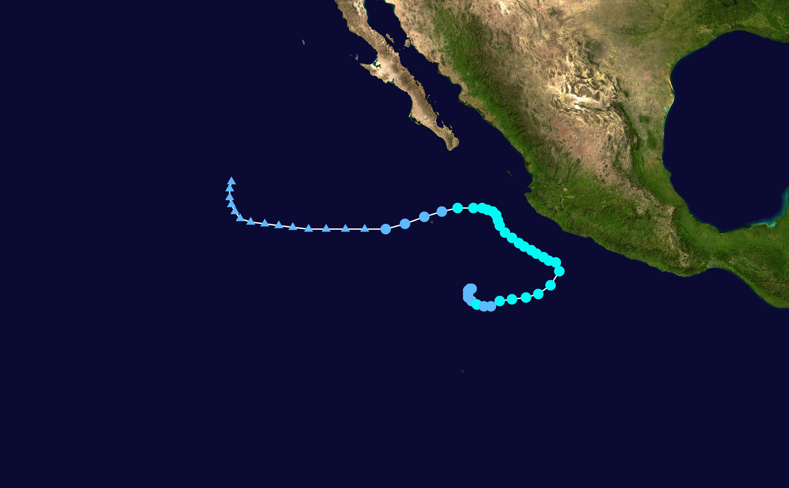 Track map of Tropical Storm Kiko of the 2007 Pacific hurricane season. The points show the location of the storm at 6-hour intervals. The colour represents the storm's maximum sustained wind speeds as classified in the Saffir–Simpson scale (see below), and the shape of the data points represent the nature of the storm, according to the legend below. Saffir–Simpson scale Tropical depression≤38 mph≤62 km/h Category 3111–129 mph178–208 km/h Tropical storm39–73 mph63–118 km/h Category 4130–156 mph209–251 km/h Category 174–95 mph119–153 km/h Category 5≥157 mph≥252 km/h Category 296–110 mph154–177 km/h Unknown Storm type Tropical cyclone Subtropical cyclone Extratropical cyclone / Remnant low / Tropical disturbance / Monsoon depression